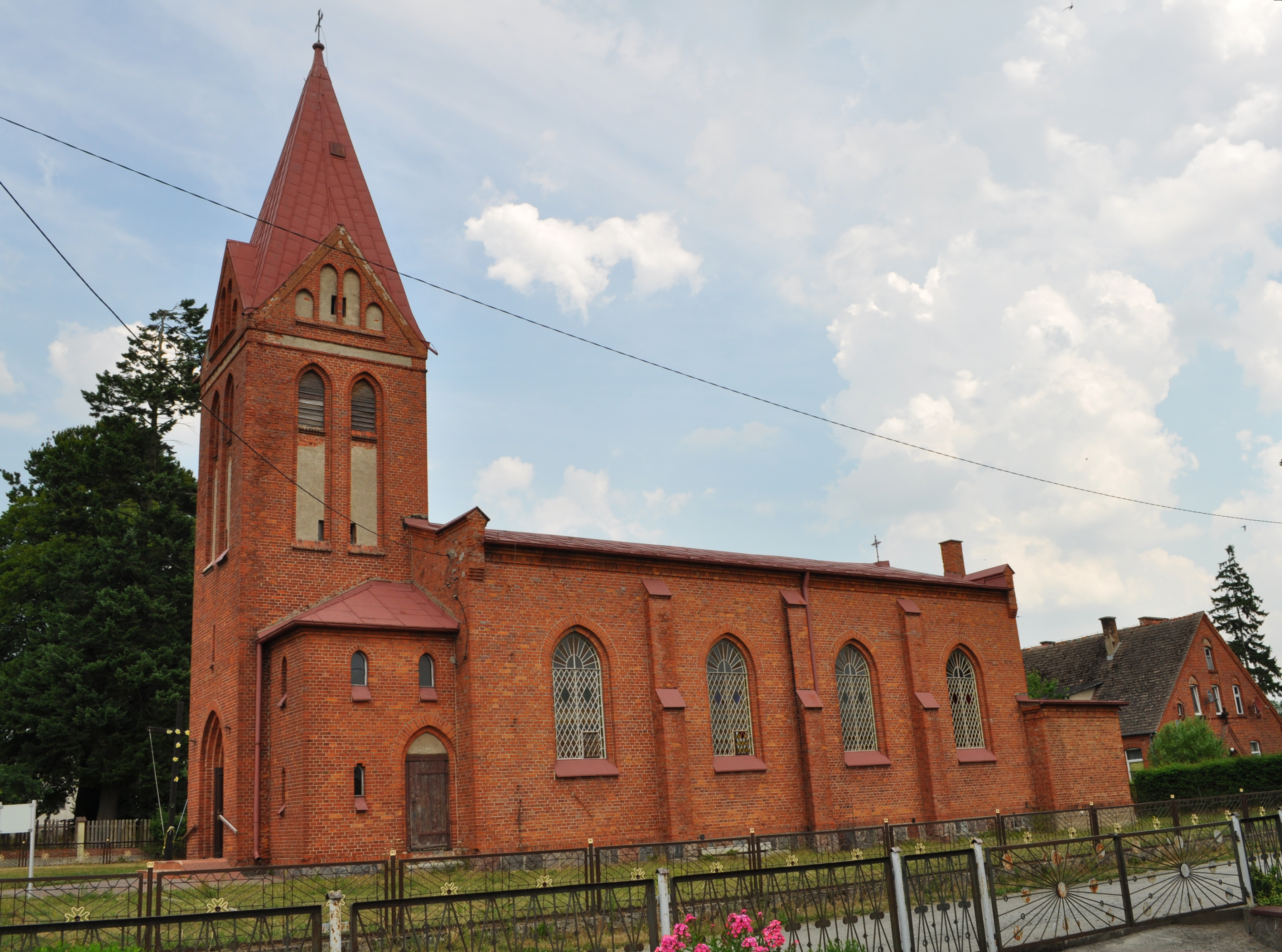 Church in Łebień